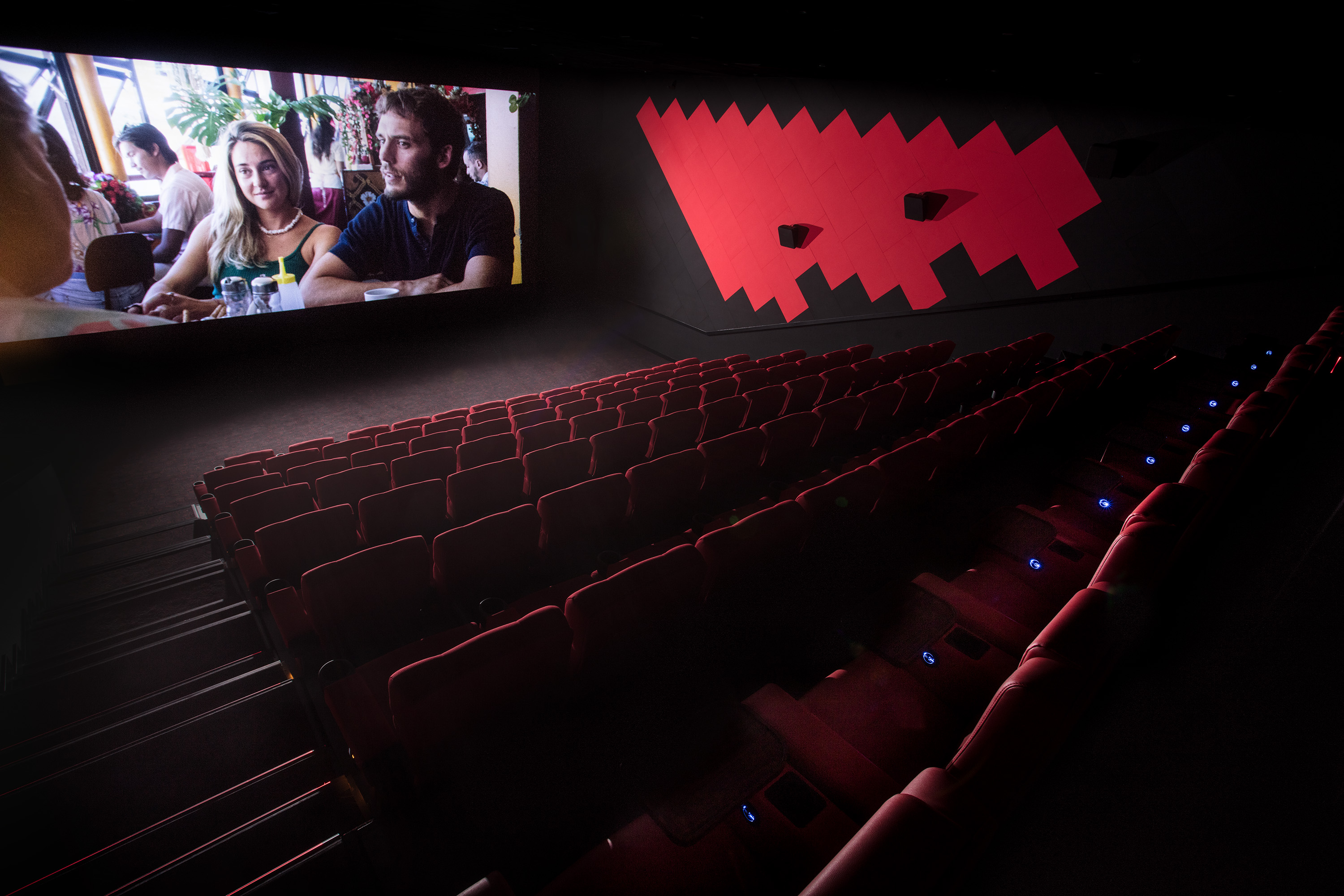 Book your movie tickets online for the latest Hollywood, Arabic, Bollywood, Hindi, Tamil, Malayalam, Tagalog & other regional films at Novo Cinemas in Qatar.